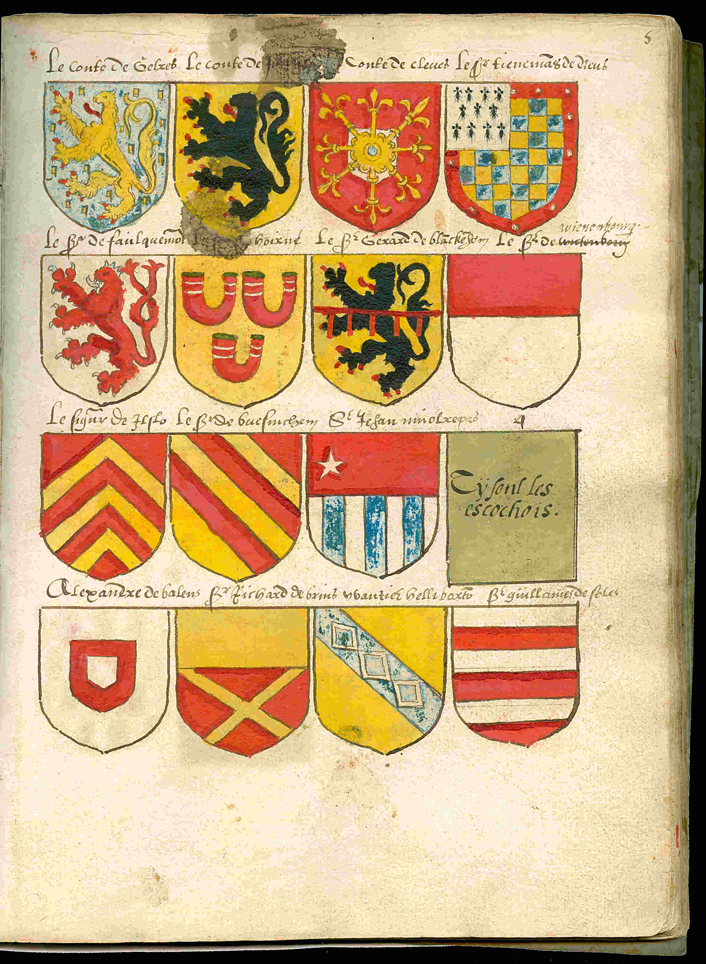 Page 05 from a copy of the Beyeren armorial / Wapenboek Beyeren from ca. 1600. The original Beyeren armorial from 1405 can be viewed at the website of the KB